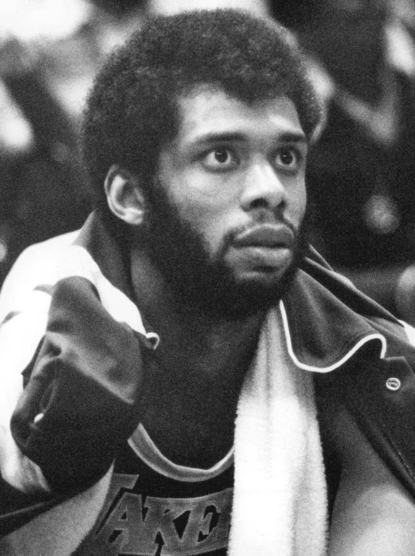 Professional basketball player Kareem Abdul-Jabbar